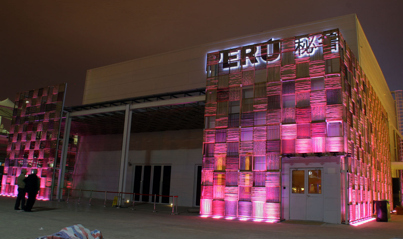 Peru Pavilion of Expo 2010